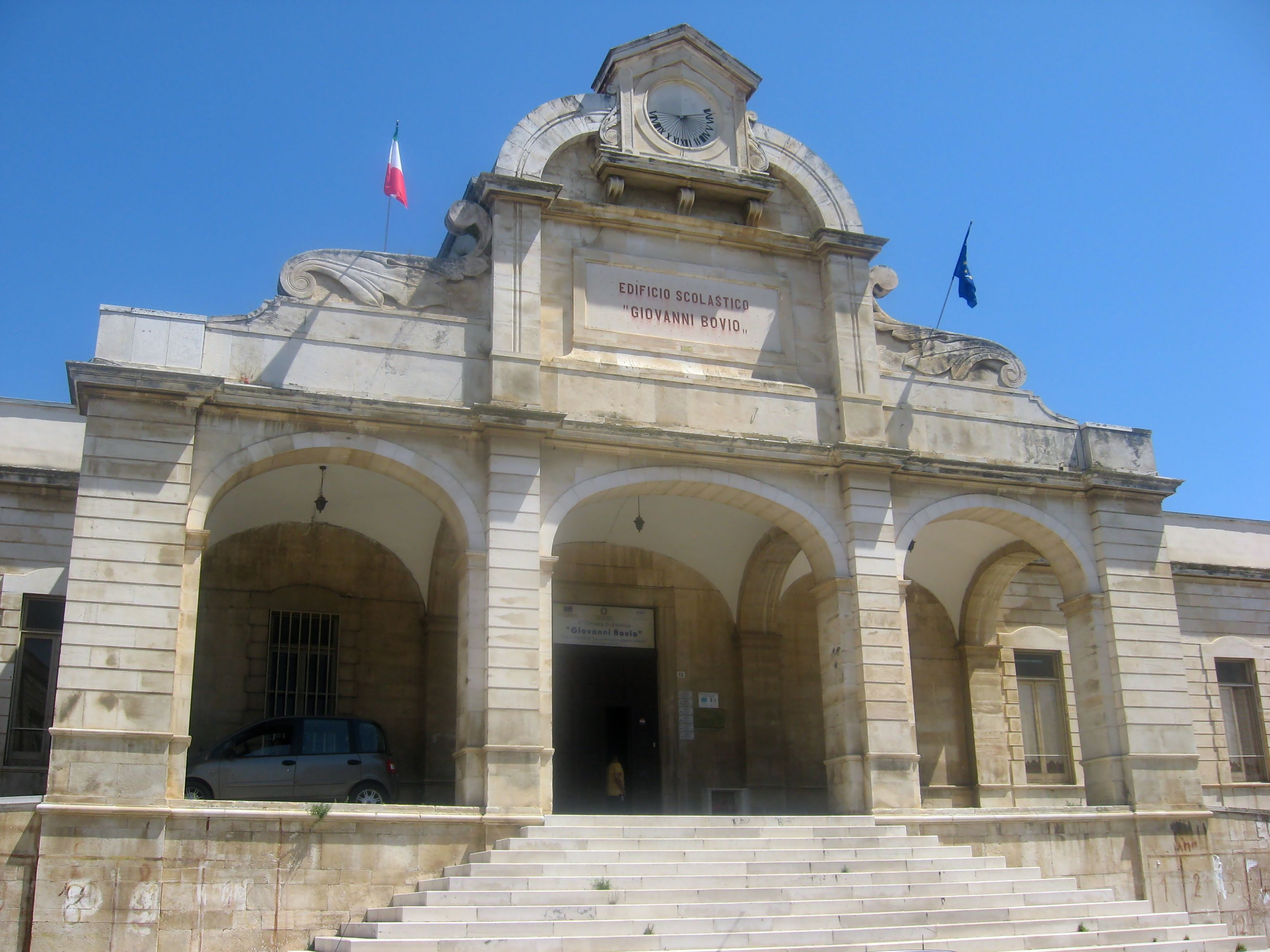 "Giovanni Bovio" school in Ruvo di Puglia